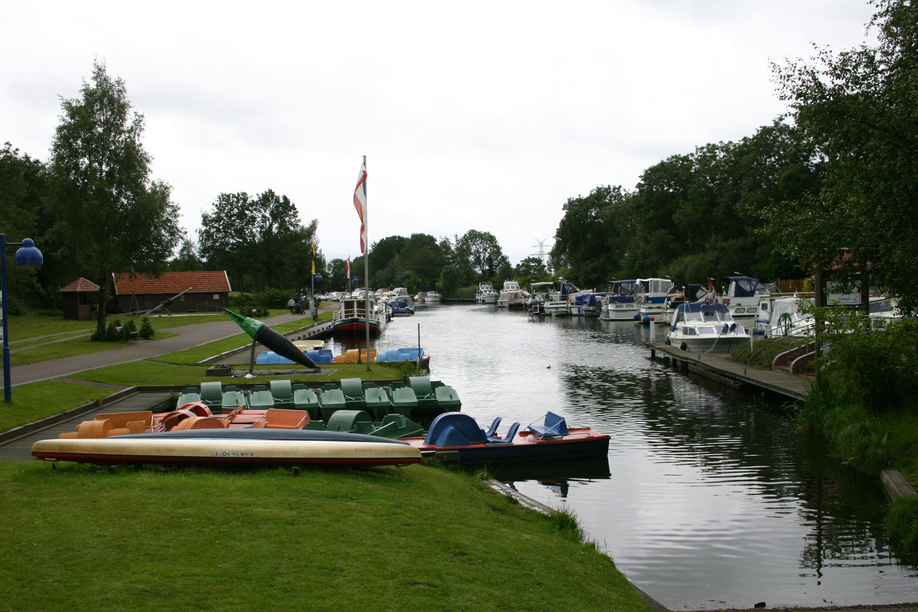 Pleasure boats near Timmel, community of Großefehn, district of Aurich, East Frisia, Germany